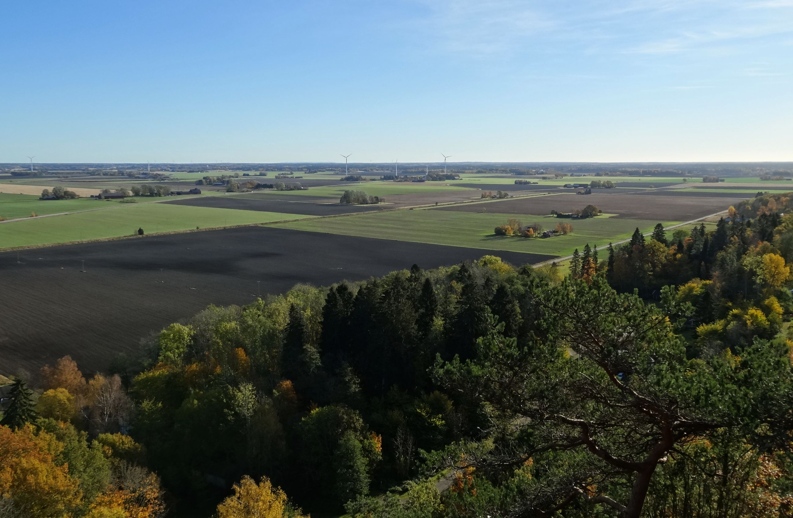 The Västgöta-plains east of the mountain Hunneberg, Sweden.